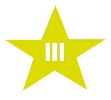 Okawa Kochi chapter